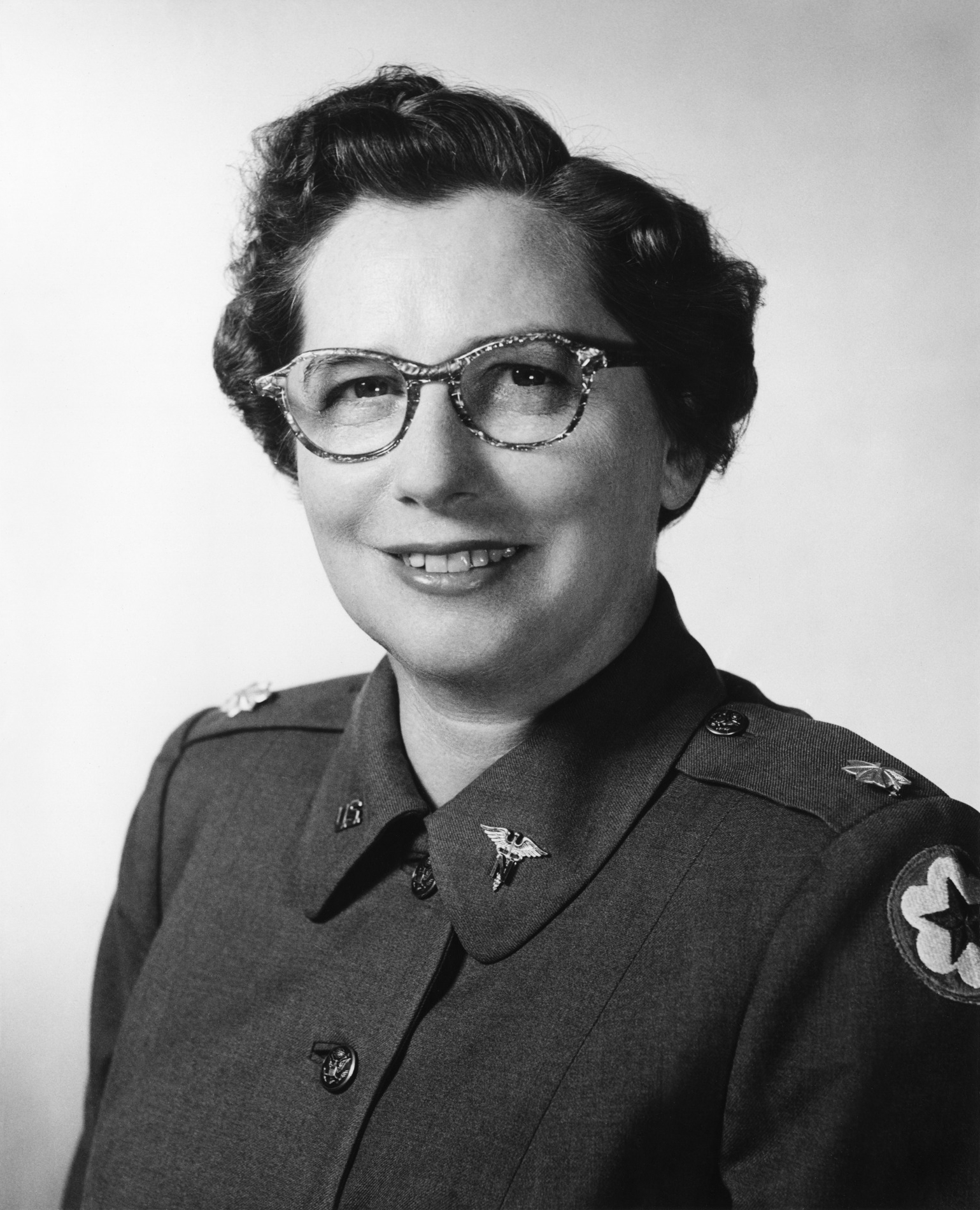 Creator: United States Army Subject: Kirby, Pauline United States Army Nurse Corps Walter Reed Army Hospital (Washington, D.C.) Type: Black-and-White Prints Date: 5/4/1954 Topic: Neurobehavioral disorders Psychiatry Women scientists Local number: SIA Acc. 90-105 [SIA-SIA2008-4824] Summary: In 1954, Lt. Col. Pauline Kirby of the Army Nurse Corps (ANC) had just been appointed Chief of the Nursing Service at Walter Reed Hospital in Washington, D.C. Kirby joined the ANC in 1926 and had served as the U.S. Army's assistant director of nurses in the Southwest Pacific during World War II, and assisted with the establishment of neuropsychiatric hospitals for wounded soldiers. Cite as: Acc. 90-105 - Science Service, Records, 1920s-1970s, Smithsonian Institution Archives Persistent URL:Link to data base record Repository:Smithsonian Institution Archives View more collections from the Smithsonian Institution.